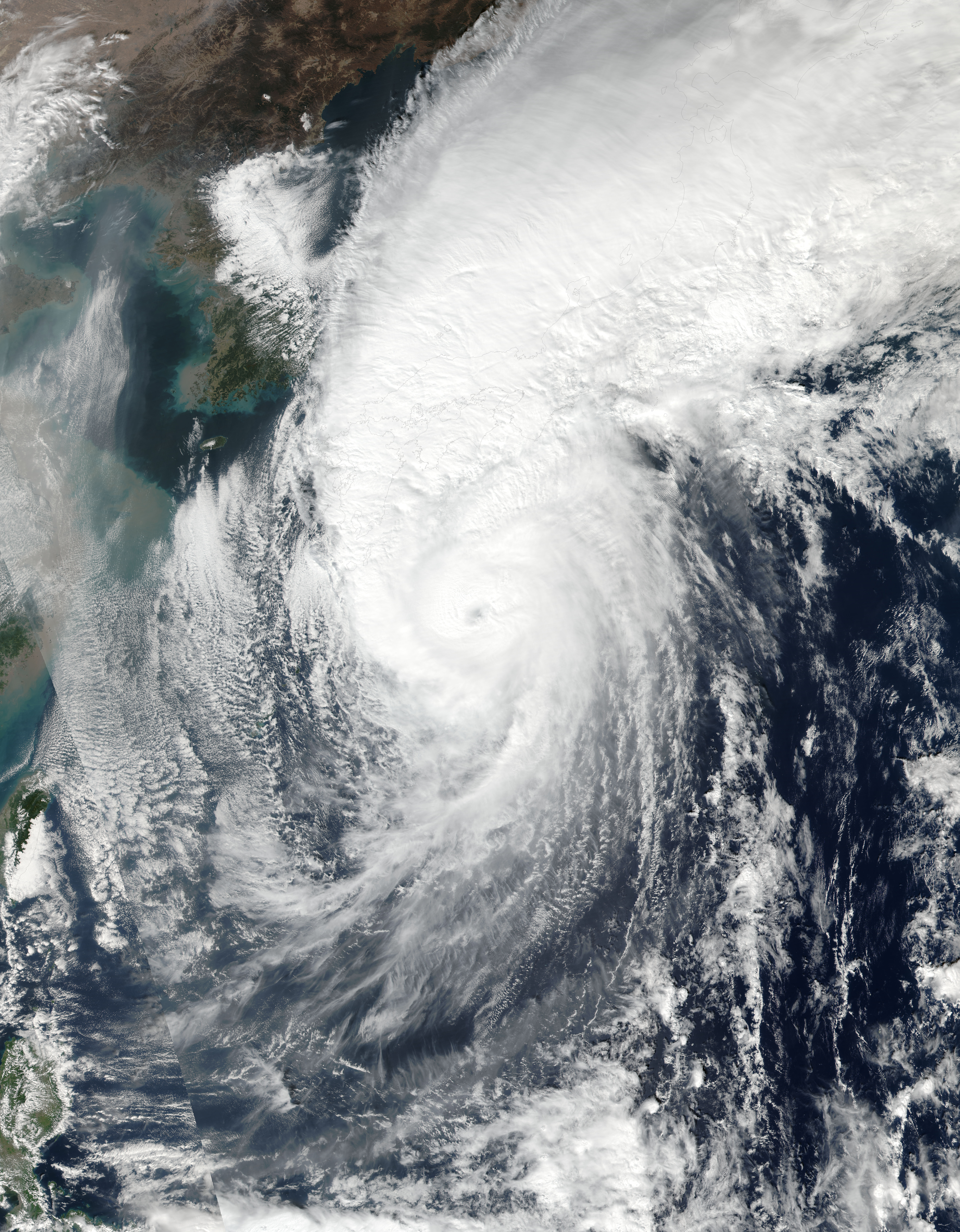 Typhoon Lan (25W) over Japan